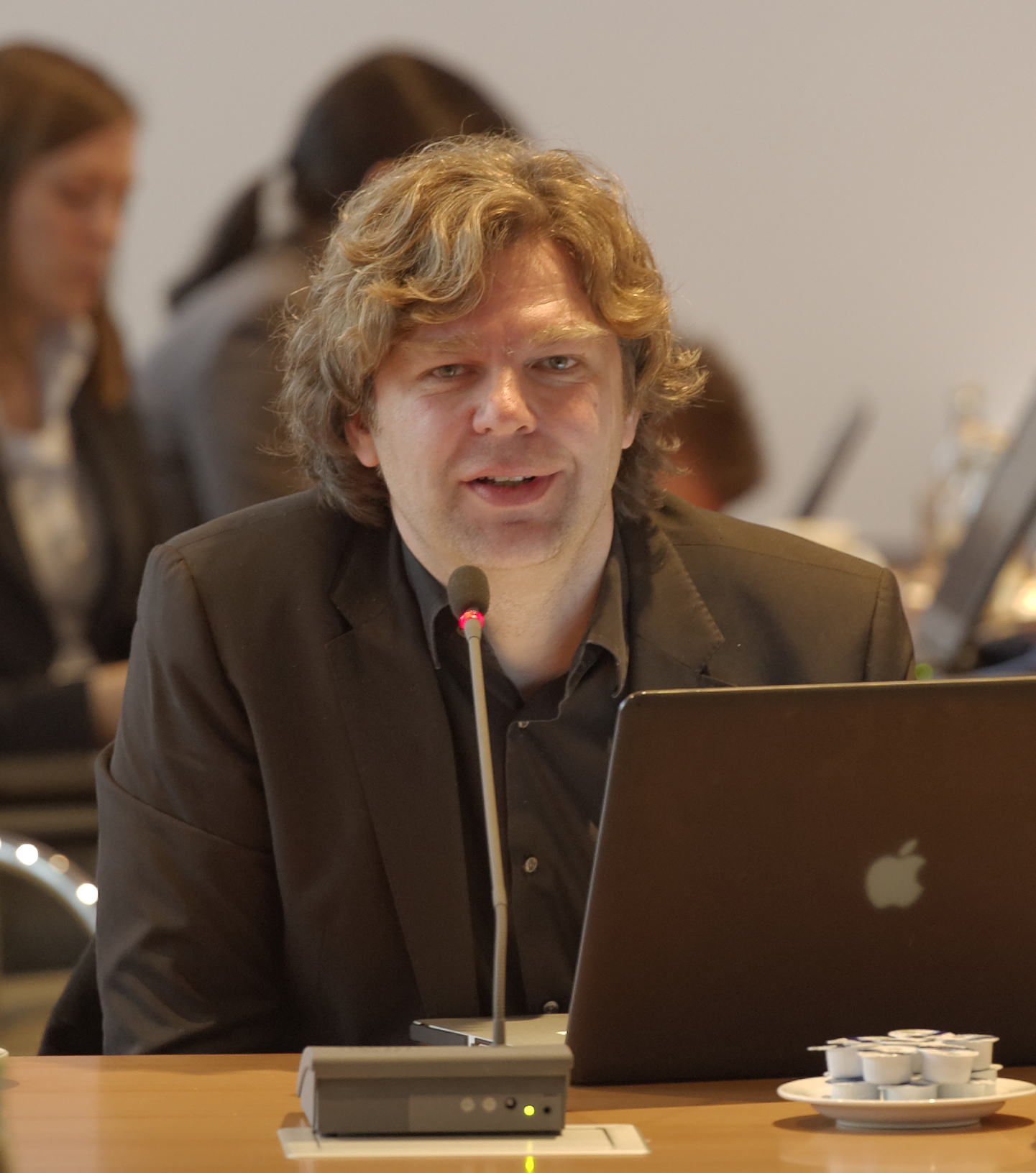 Michael Steinbrecht at the announcement of the winners of the Grimme prize 2013